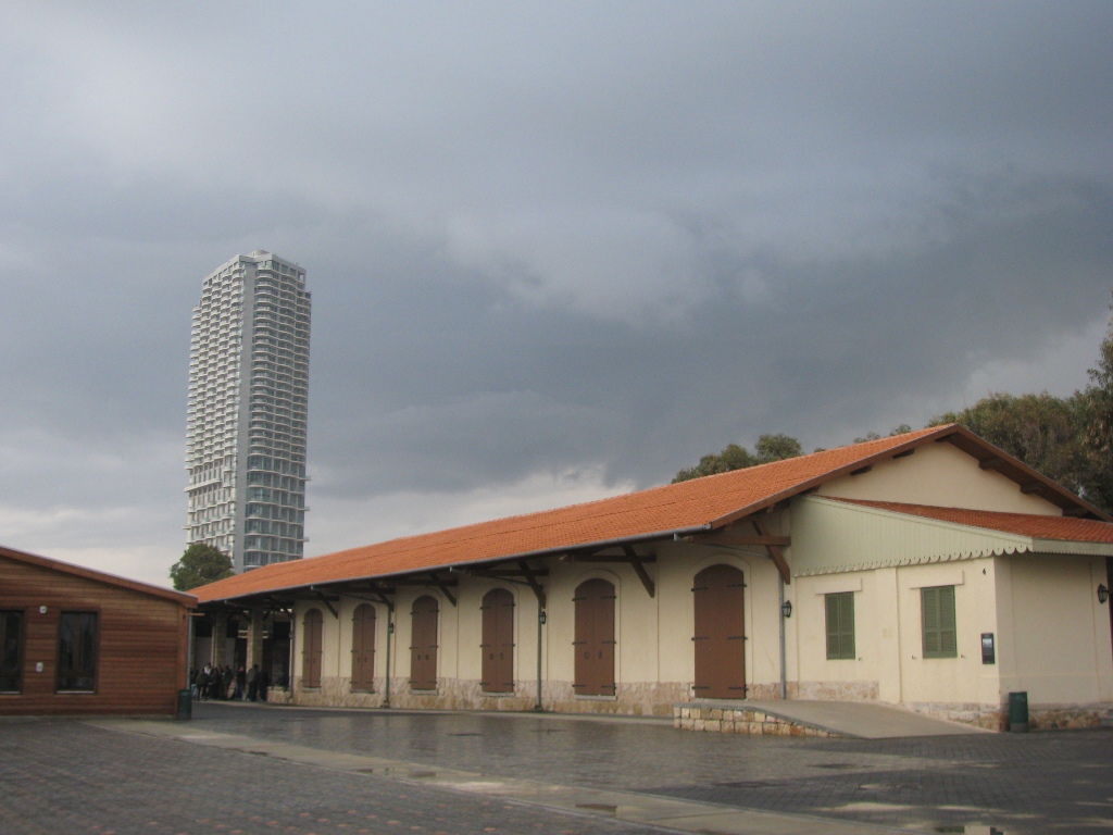 Terminal of goods